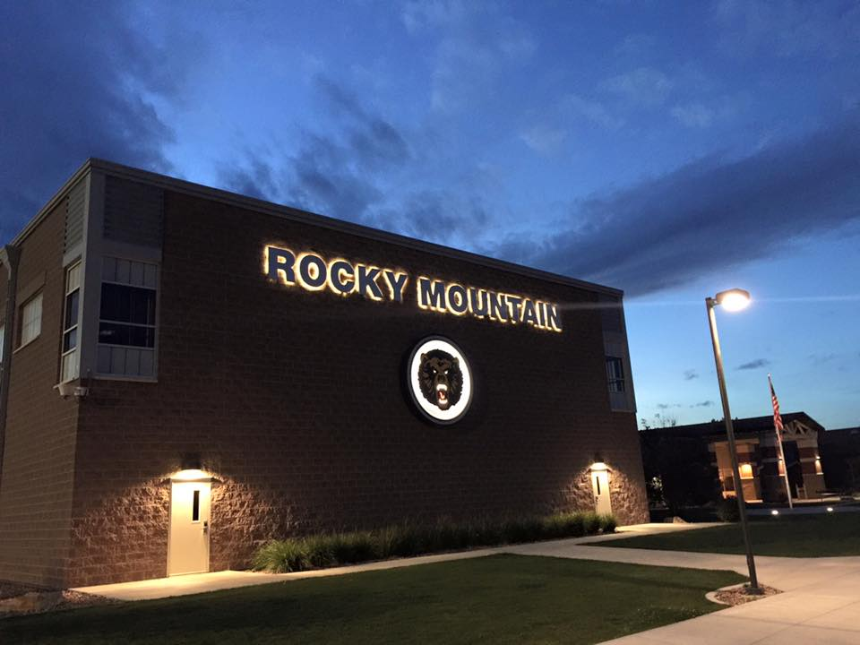 The Front of RMMHS at Night